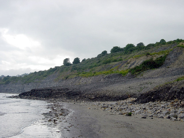 Black Ven. Black Ven, between Charmouth and Lyme Regis, is the largest coastal mudslide complex in Europe. Underlying clays prevent adequate drainage and during periods of heavy rain, the overlying rocks become so saturated that they 'slide' down the cliffs on to the beach below. Winter storms regularly remove the 'toe' of the mudslide.